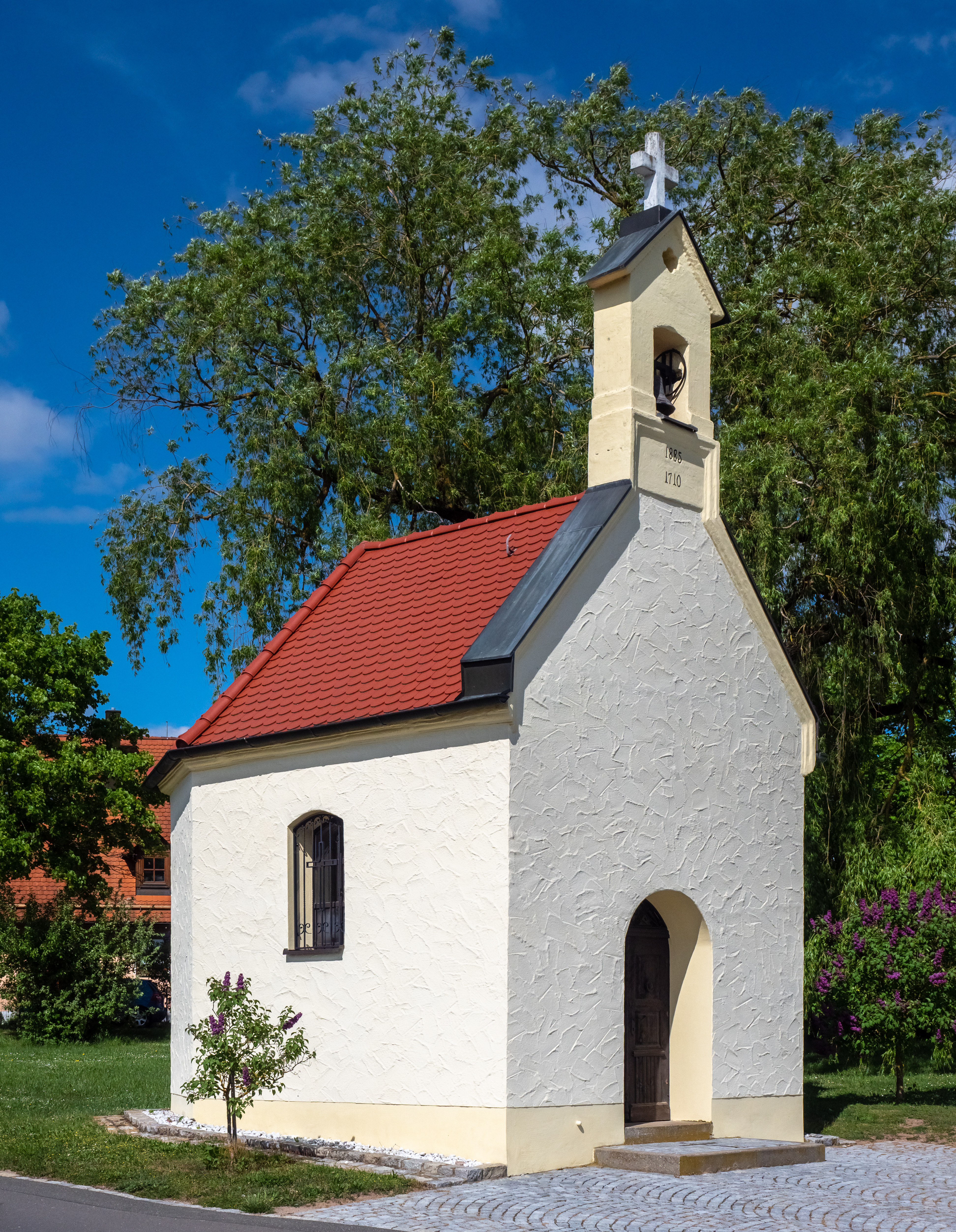 Chapel in Gereuth near Zentbechhofen